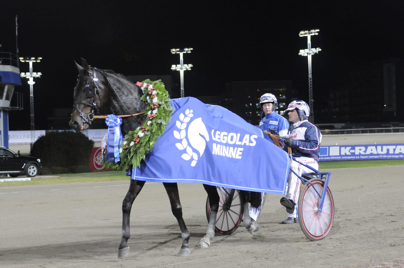 Nadal Broline, Erik Adielsson and Reijo Liljendahl after winning Legolas Minne at Åbytravet, 2018-12-15.